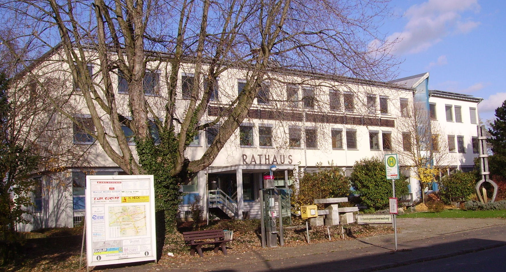 Maxdorf in Rhineland-Palatinate, Germany